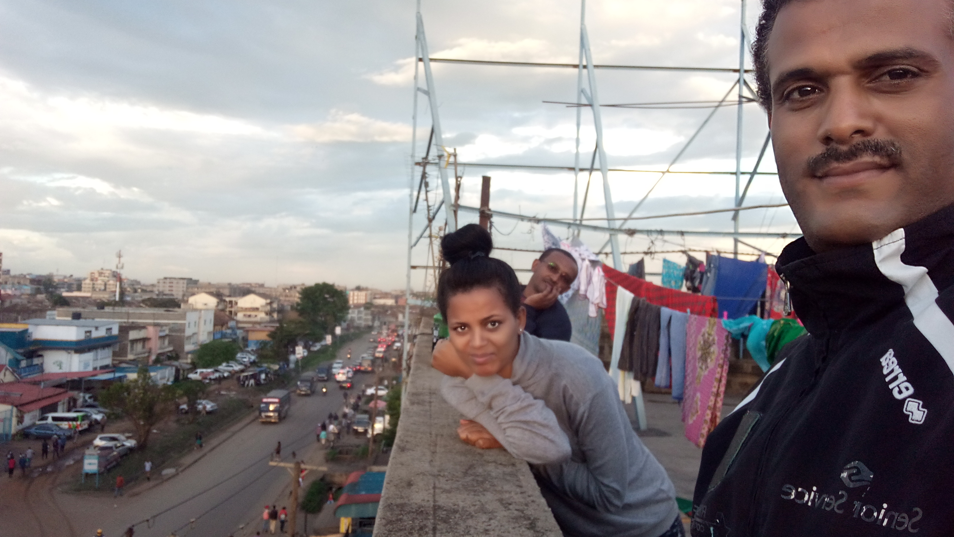 This is an image of "African people at work" from Central African Republic